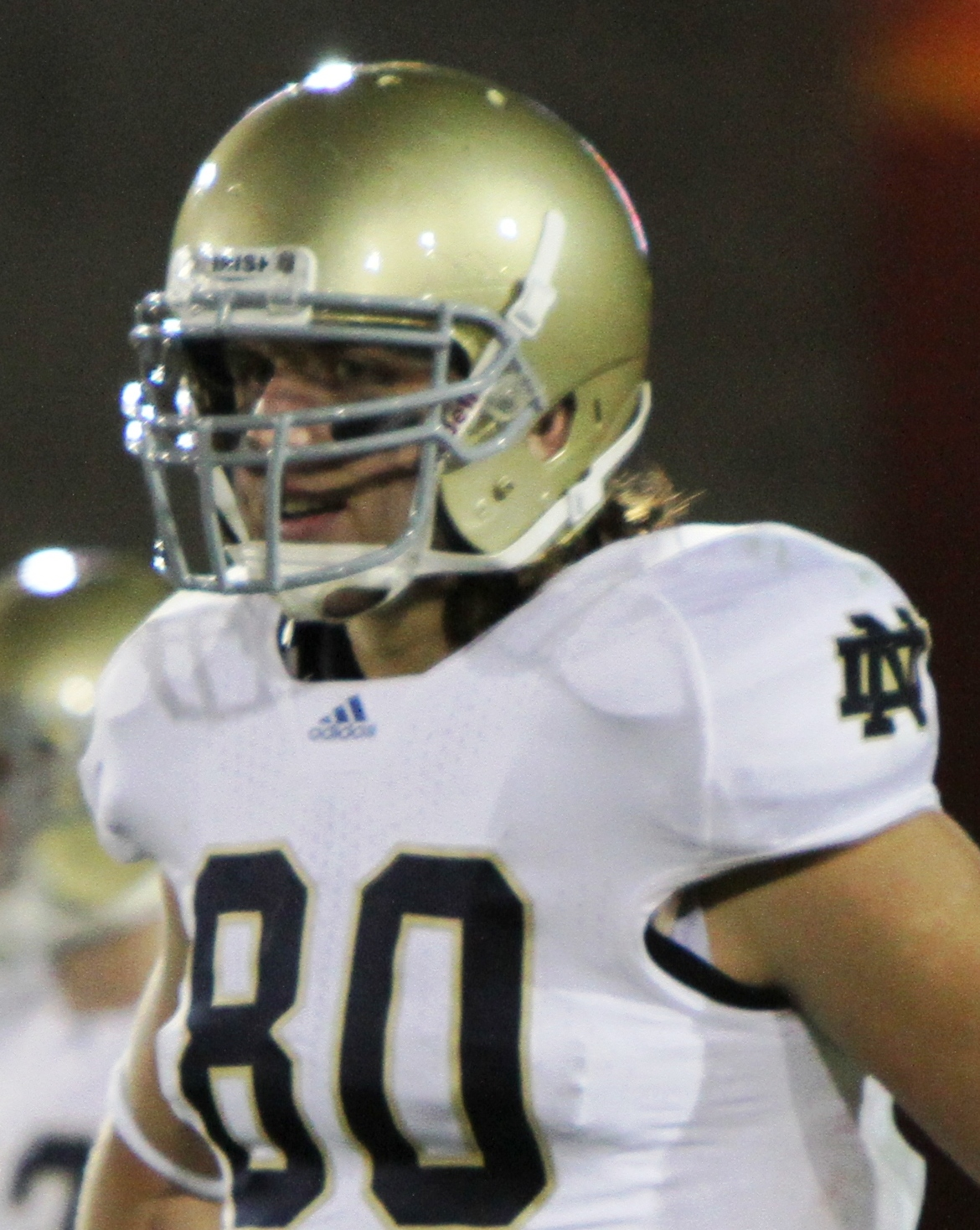 The Notre Dame Fighting Irish defeated the USC Trojans 20-16 at the Los Angeles Memorial Coliseum Saturday November 27, 2010. (Shotgun Spratling/Neon Tommy)